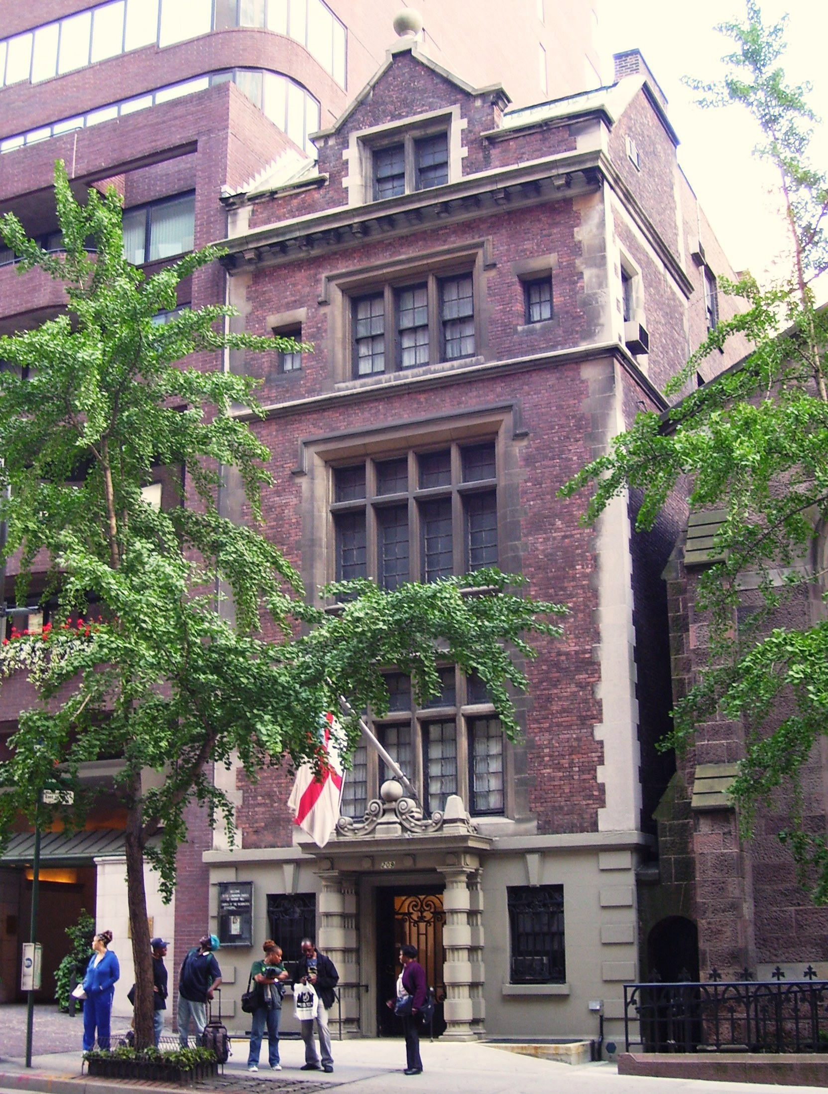 The Church of the Incarnation, Episcopal (Manhattan) is located at 205-209 Madison Avenue at the corner of 35th Street in the Murray Hill neighborhood of Manhattan, New York City. The church was built in 1864-65 and was designed by Emlen T. Littel in Gothic revival style. It was burned down in a fire in 1882 and was rebuilt and expanded by David Jardine, with a spire added in 1896 by Heins and LaFarge to Jardine's design. The rectory, now used as a parish house, was built in 1868-69, designed by Robert Mook, and was rebuilt and given a new facade in neo-Jacobean style in 1905-06 by Edward P. Casey. The bulding was renovated in 1991 by Jan Hird Pokorny. It is a NYC landmark and on the National Register of Historic Places. (Sources: AIA Guide to NYC (4th ed.), Guide to NYC Landmarks (4th ed.) and From Abyssinian to Zion (2004))